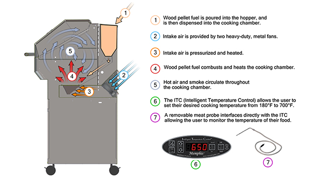 How a wood pellet grill works.